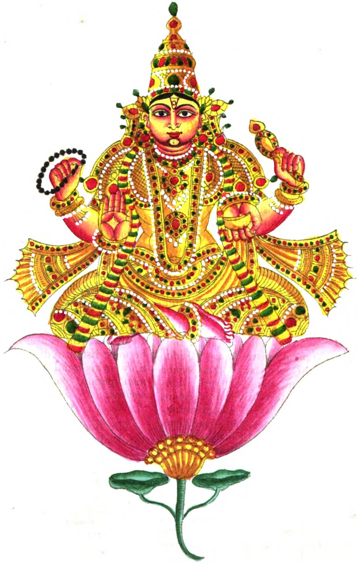 Brihaspati